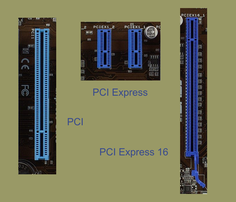 PCI -PCI Express 2.0 -PCI Express 16 1 x PCIe 2.0 x16; 2 x PCIe 2.0 x1; 1 x PCI